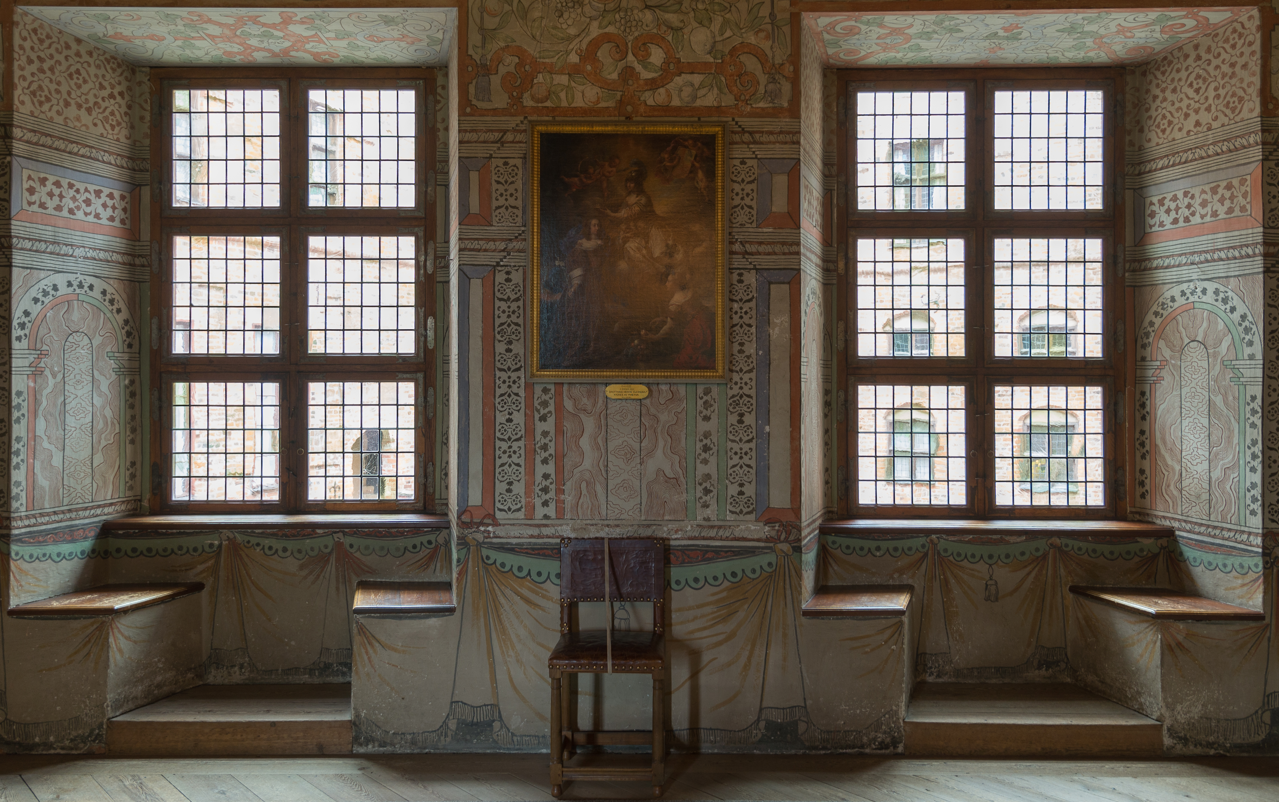 Interior of the the Swedish National Portrait Gallery inside the historic Gripsholm Castle.